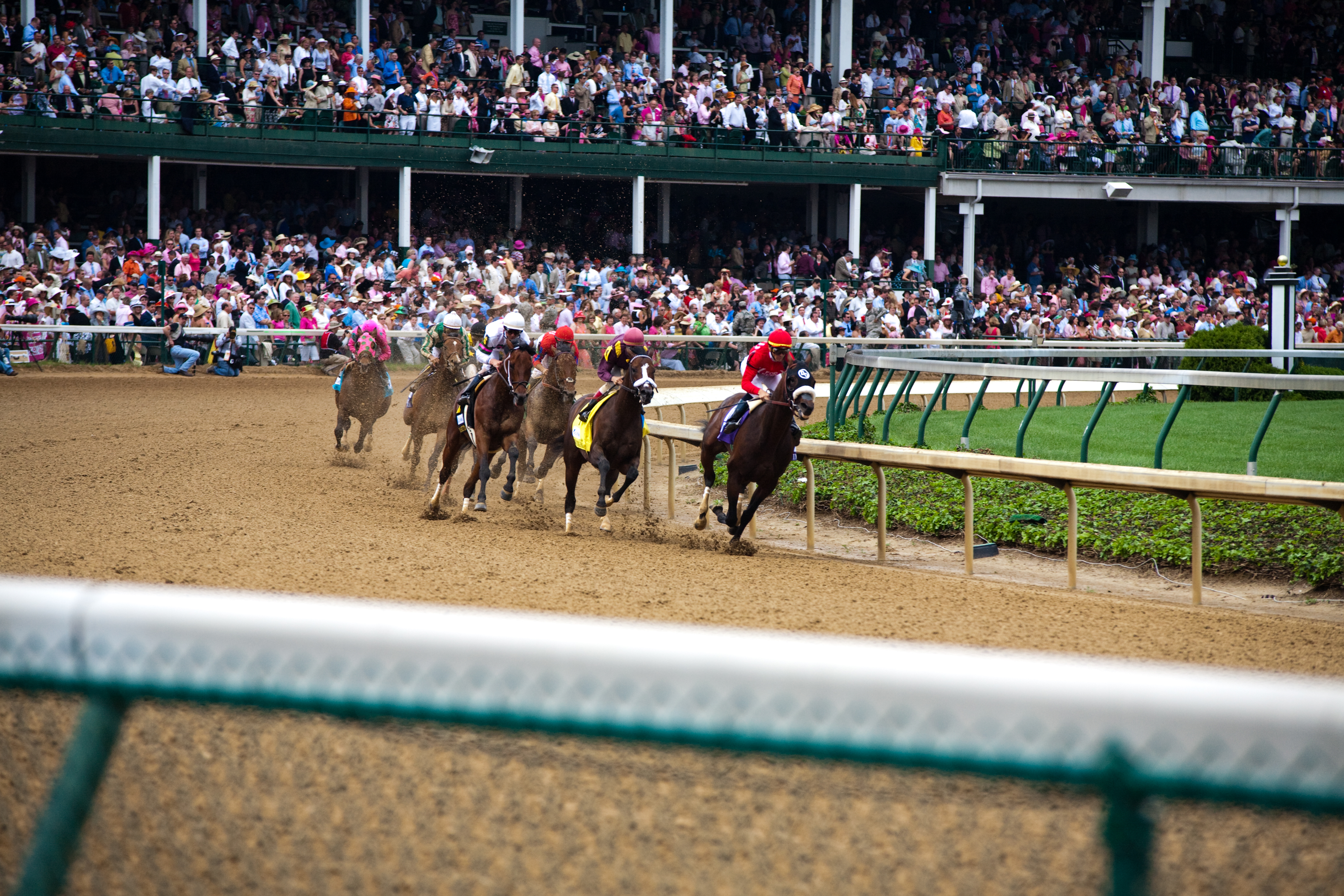 2009 Alysheba Stakes (Grade 3) won by Bullsbay. Was on undercard of 2009 Kentucky Oaks during Kentucky Derby weekend.